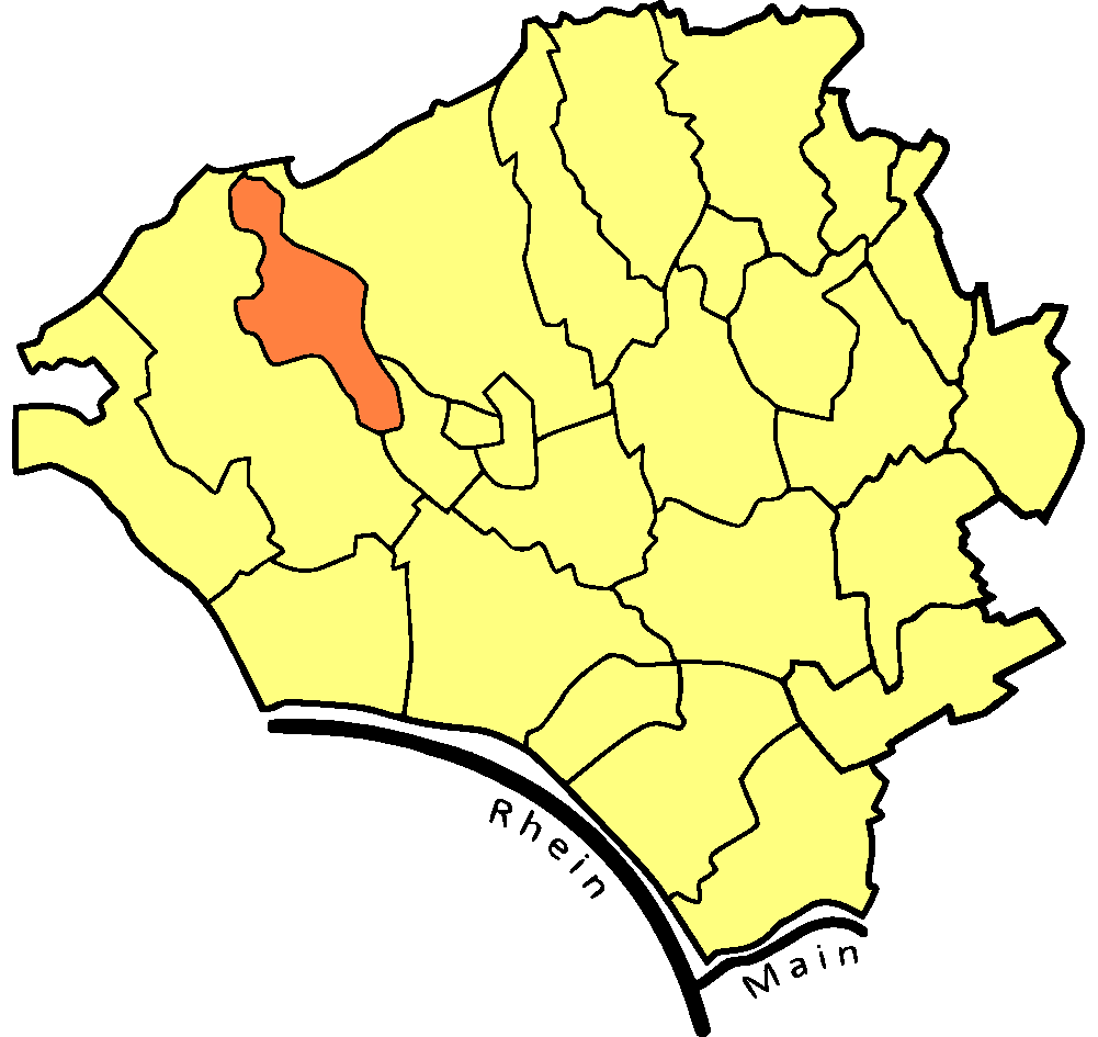 Map of Wiesbaden showing the location of Klarenthal